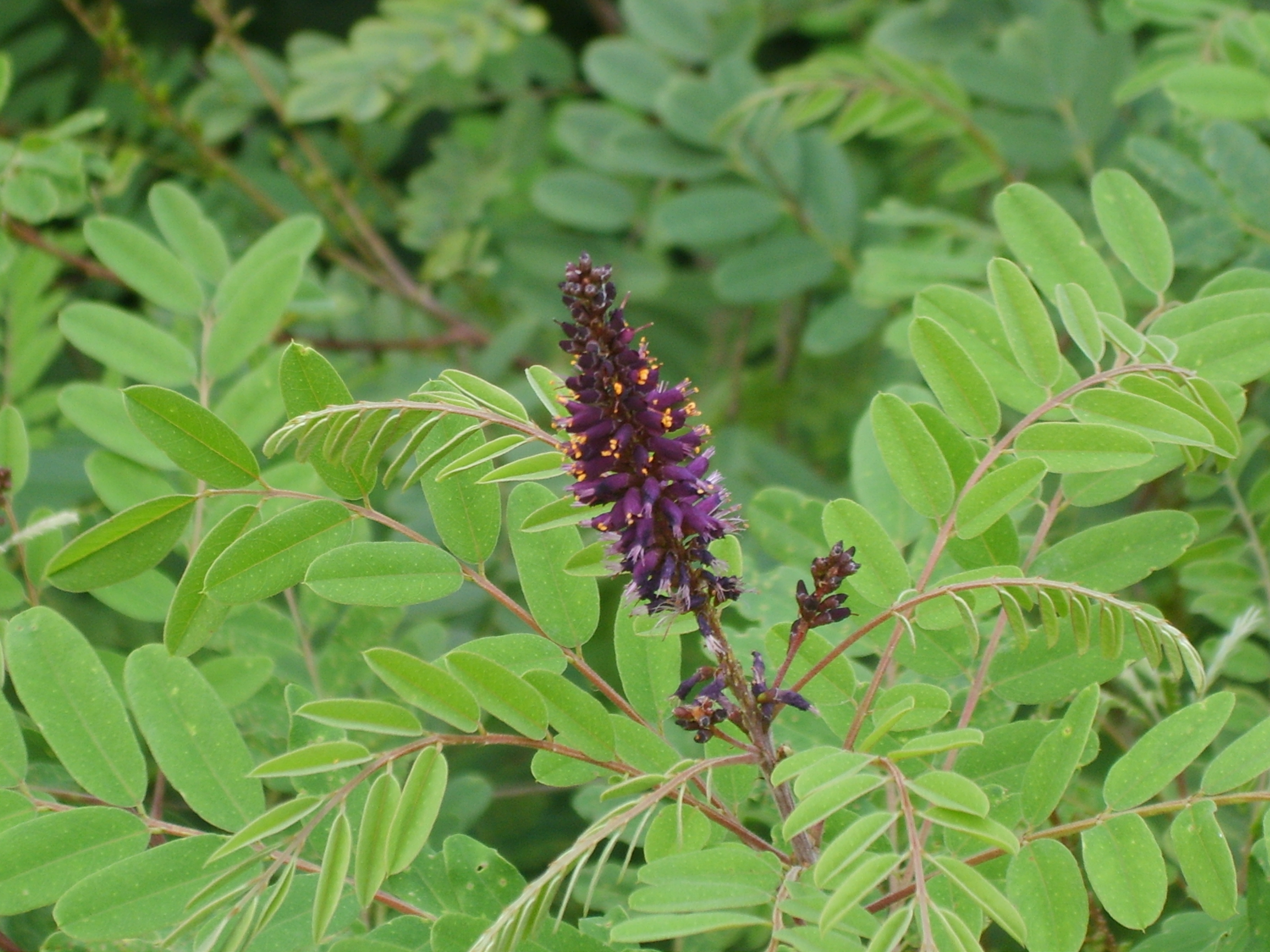 Amorpha fruticosa in Bupyung, Korea